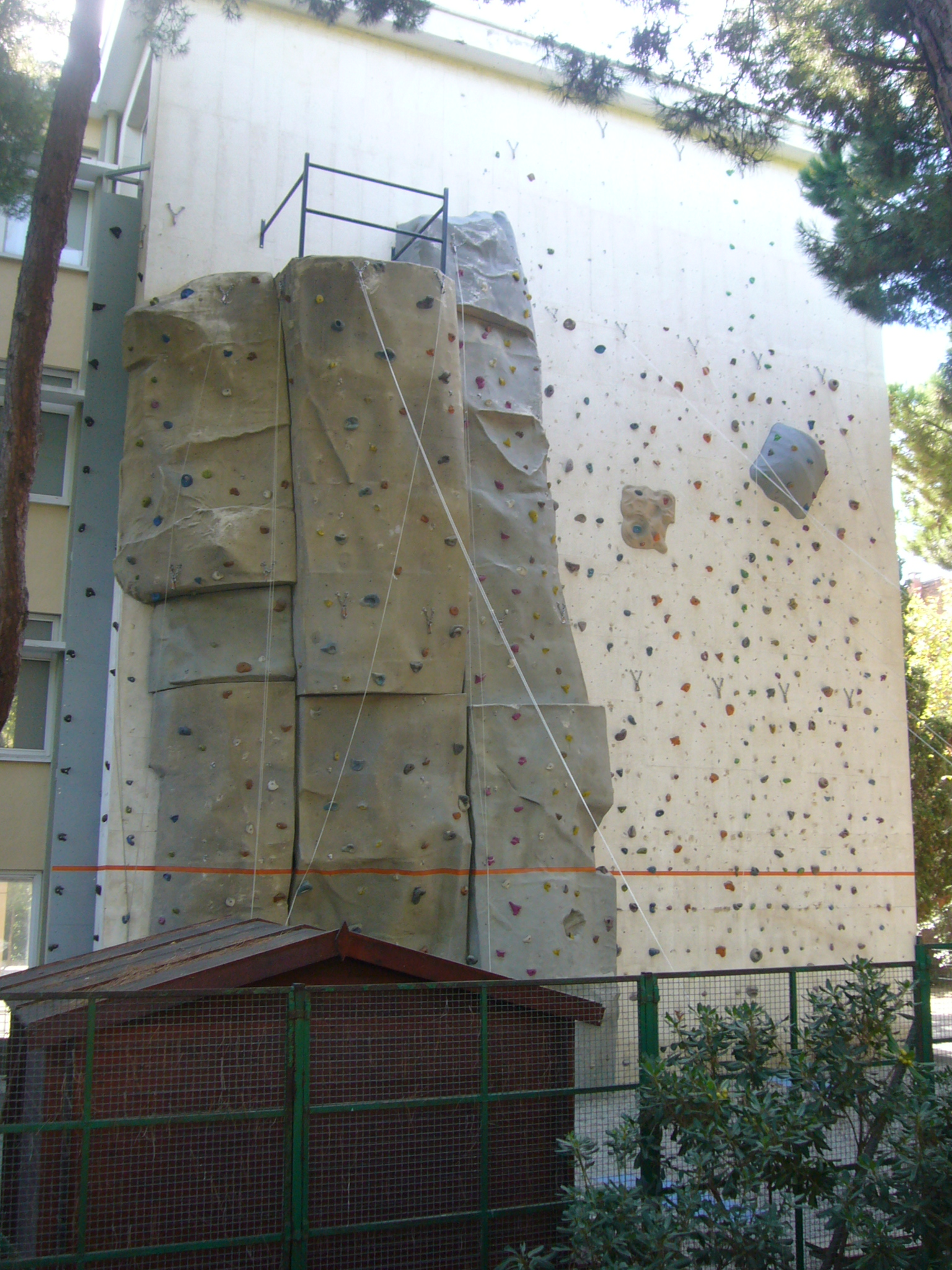 Rock climbing wall at the school "Lycée Français de Barcelone"